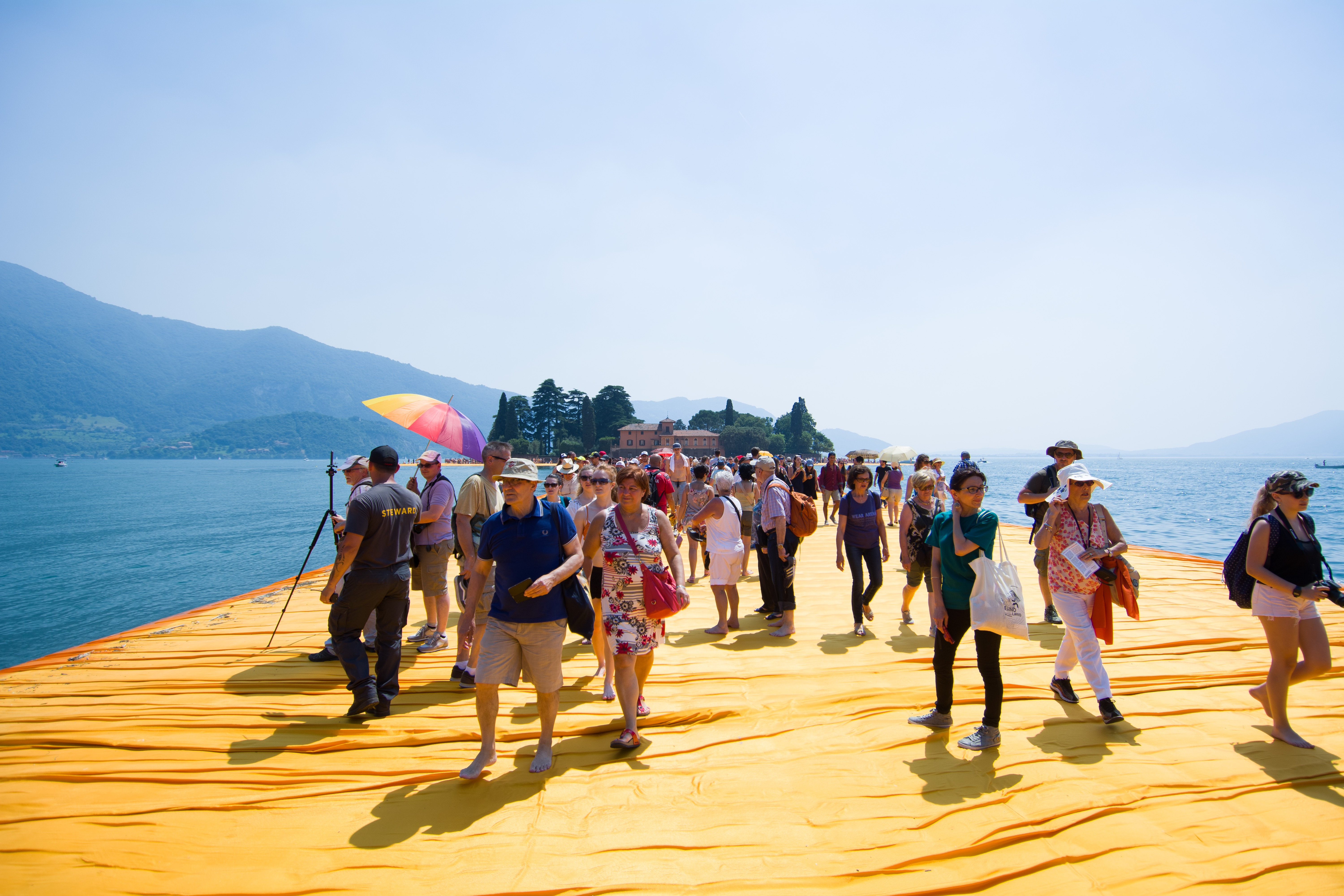 Part of an art installation at Lake Iseo created by Christo and Jeanne Claude.